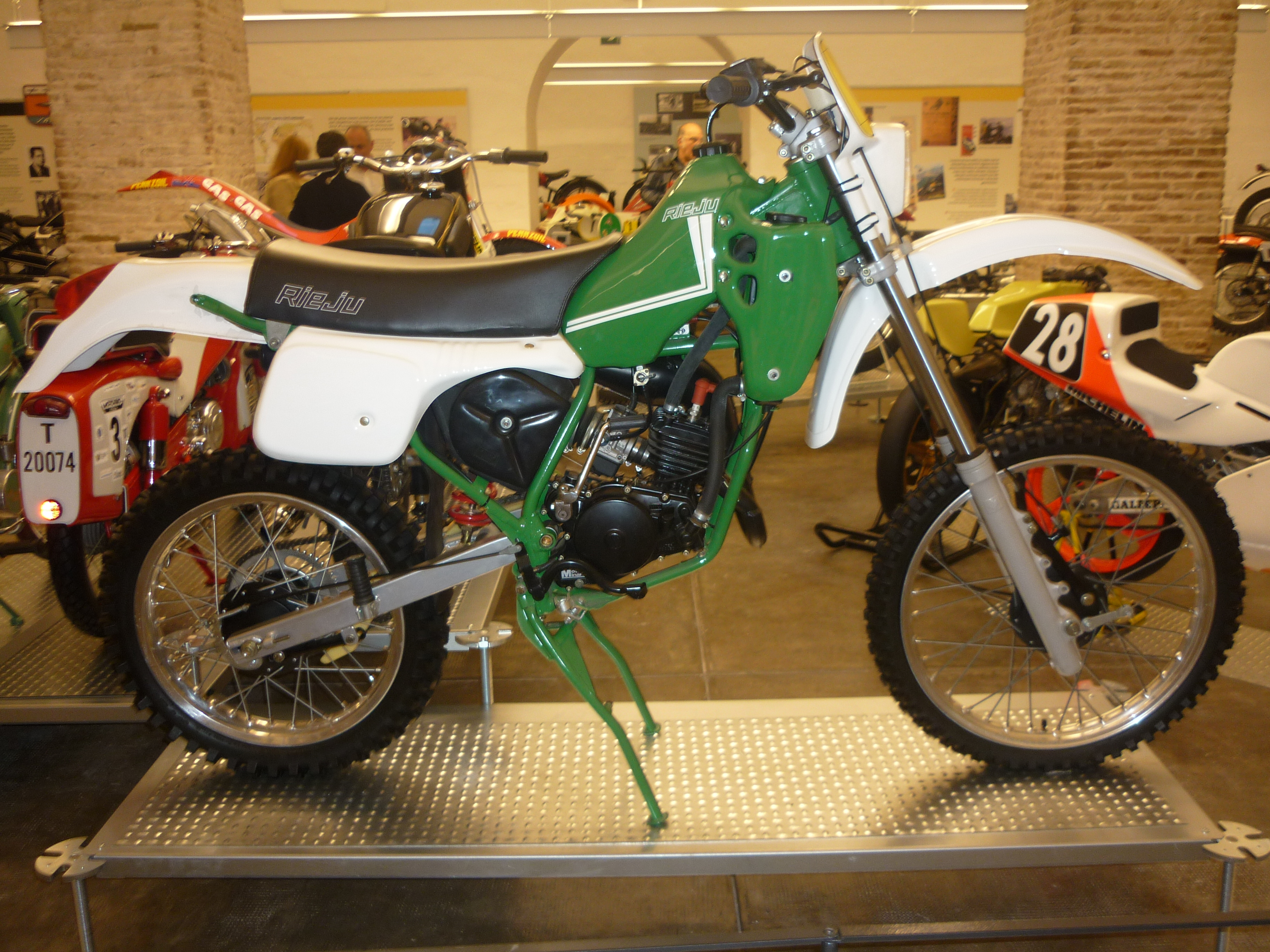 Rieju Marathon 80cc (1984).Museu de la Moto de Barcelona (Catalonia).